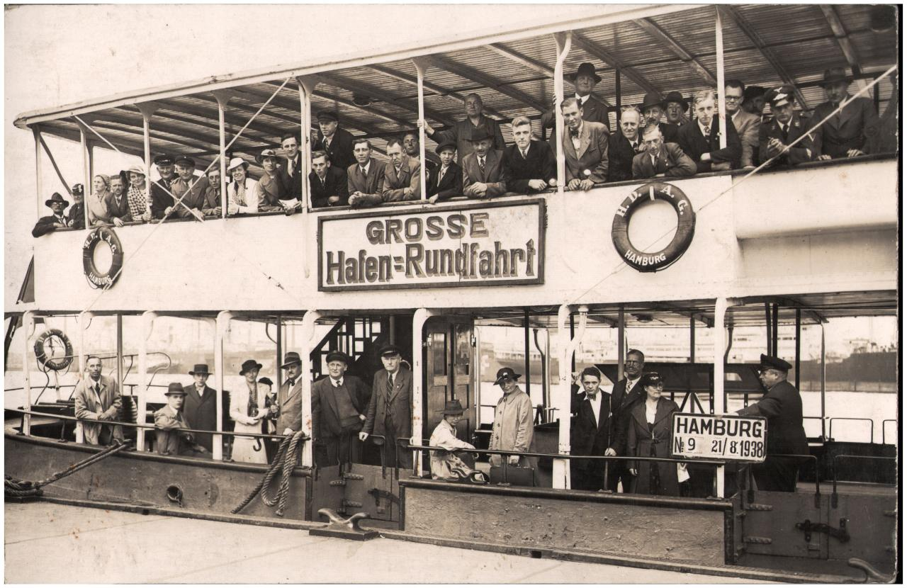 Nice to have a precisely dated photograph. And this at the time when events that were to lead to World War 2 were just kicking off , and exactly on this day Italy was banning all Jewish teachers from schools . But 'normal' life continued in Hamburg in would appear, as it did in England too - two days later England scored 903 for 7 in the cricket against Australia ! You do have to wonder what happened to these folk in the years that followed. This is a real photo postcard and on the reverse it states: "Hamburger Foto-Werrkstatten Greite & Lober, Hamburg, Landungsbrucken. Bei Nachbestellungen bitte die umseitige Nr. und Datum augeben" The last bit basically means you can reorder copies by giving the number and date on the front.